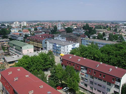 city area